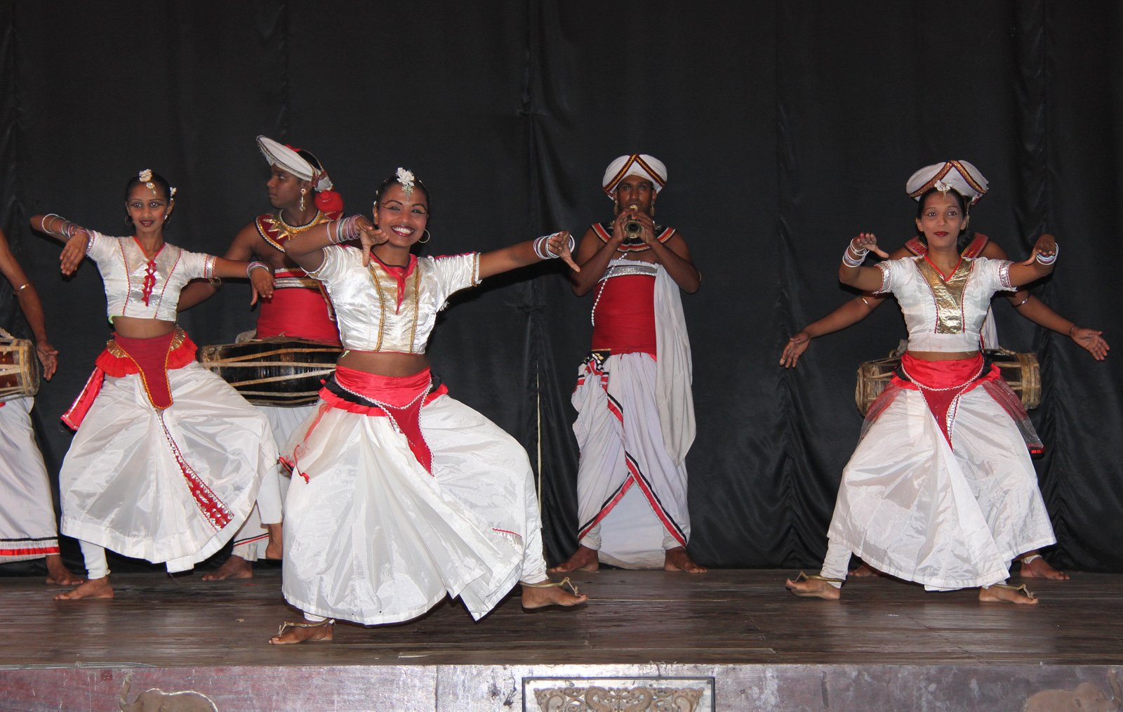 Dance in Kandy Sri Lanka